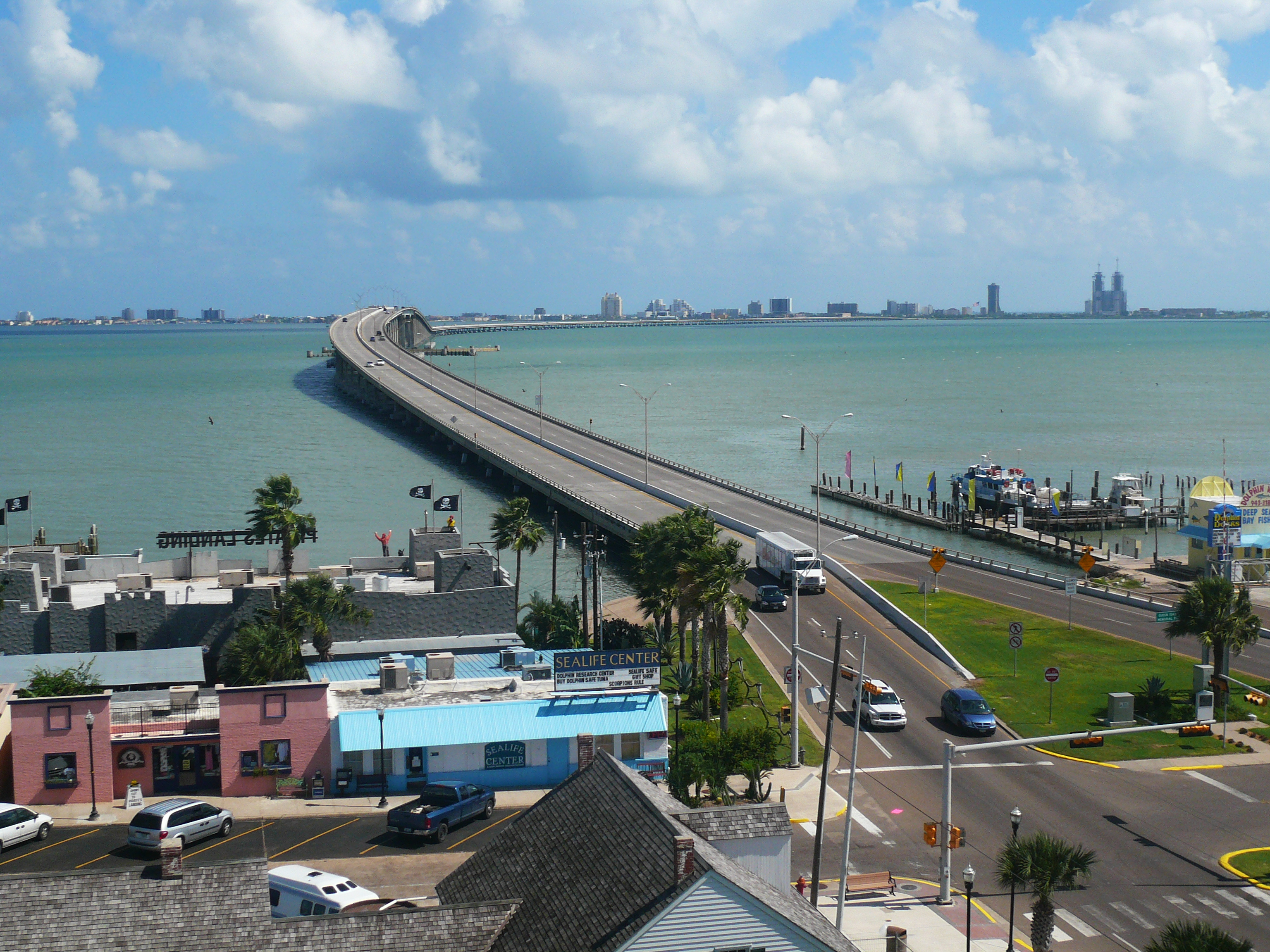 Entrance to South Padre Island